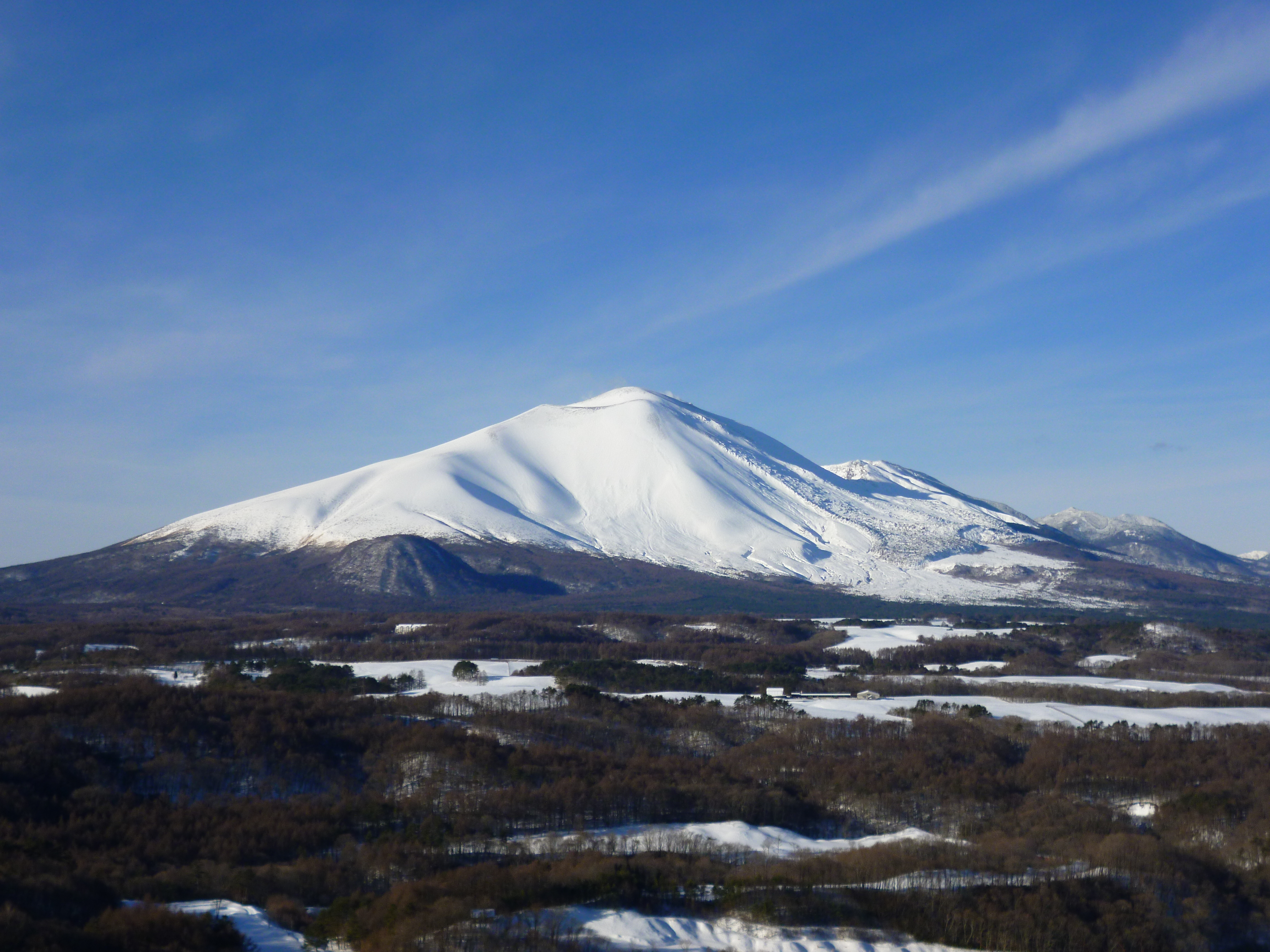 Mount Asama as seen from the ENE in Honshu, Japan. Taken from around Nidoage Pass.